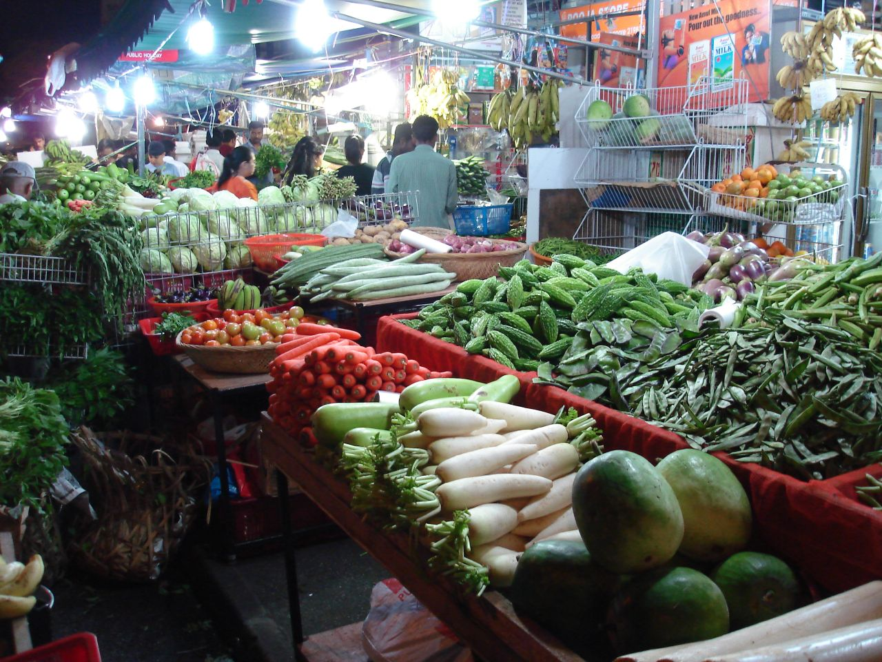 Vegetables in a market in Singapore's Little India district.little India night market